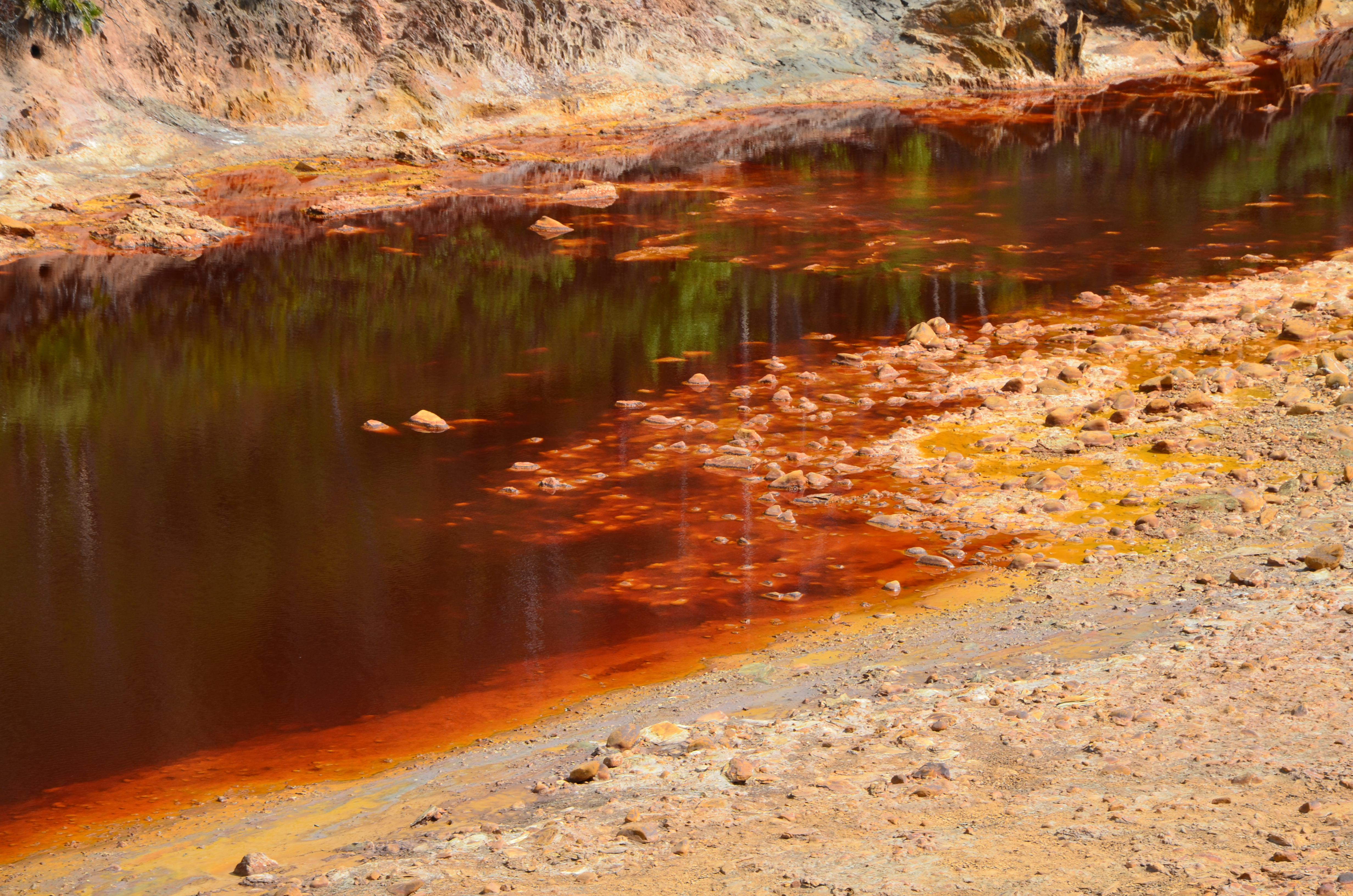 The Río Tinto (« red river »), spanish river of Andalusia (Spain) photographied from the touristic train of the Parque Minero de Riotinto, between Nerva and Berrocal (province of Huelva).